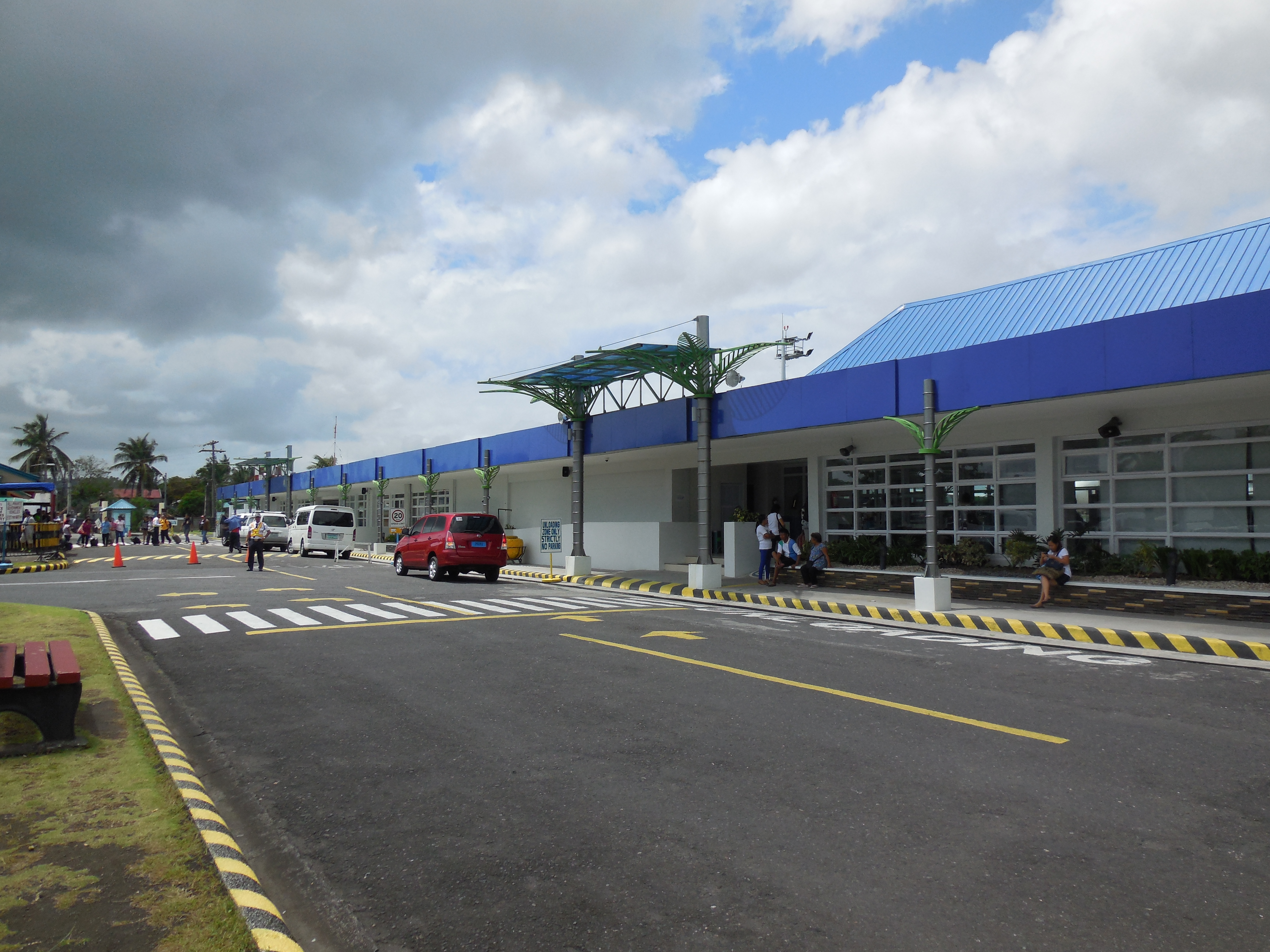 The facade of the newly renovated Legazpi City Airport Terminal Building.